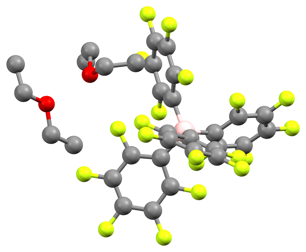 Crystal Structure of [H(Et2O)2][B(C6F5)4]